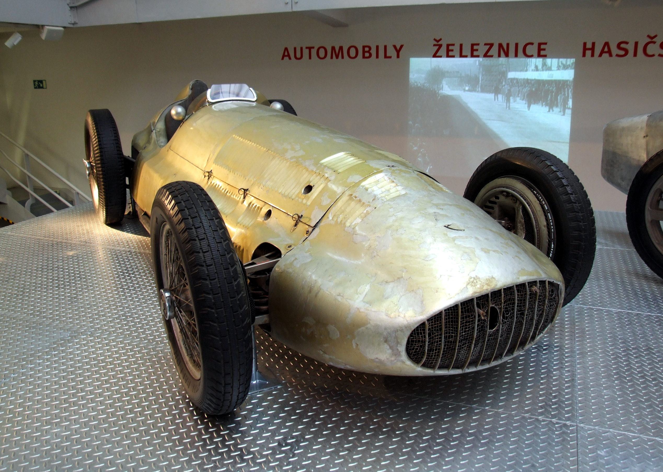 National Technical Museum in Prague - Mercedes Benz W154